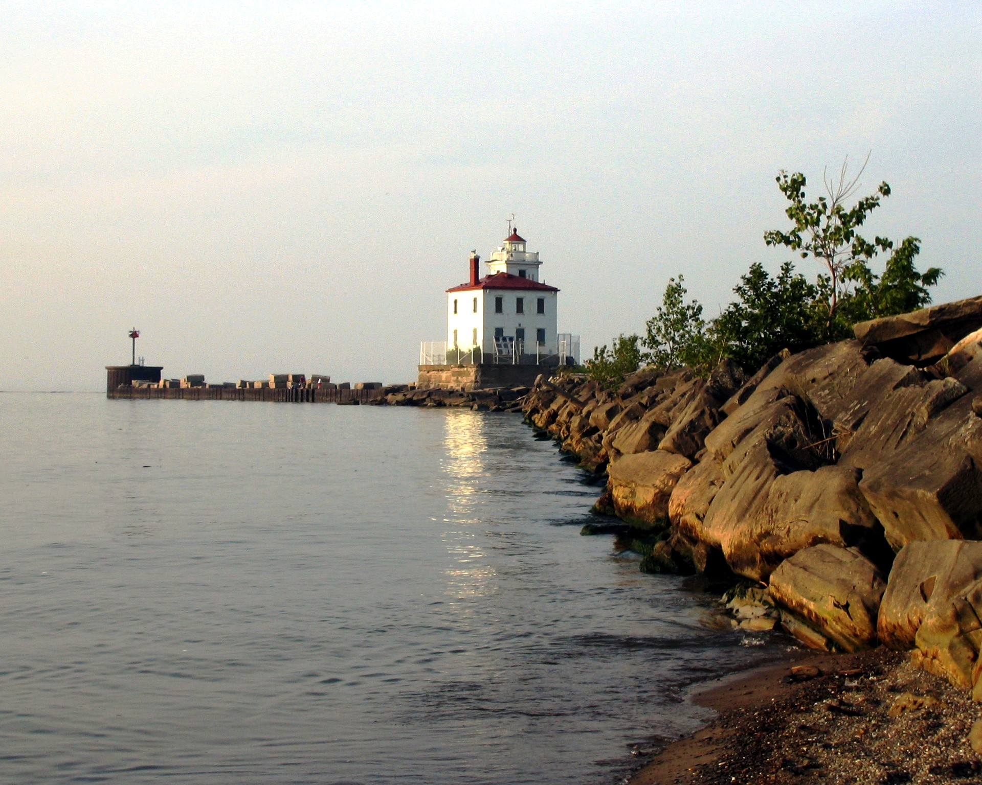 —Public Domain Fairport Harbor West Breakwater Light, Fairport Harbor viewd from the Headlands Dunes State Nature Preserve